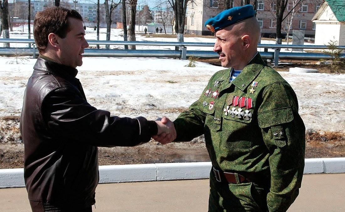 Visiting the Special Purpose Regiment of the Air Assault Forces’s base. With Hero of Russia lieutenant colonel Anatoly Lebed.